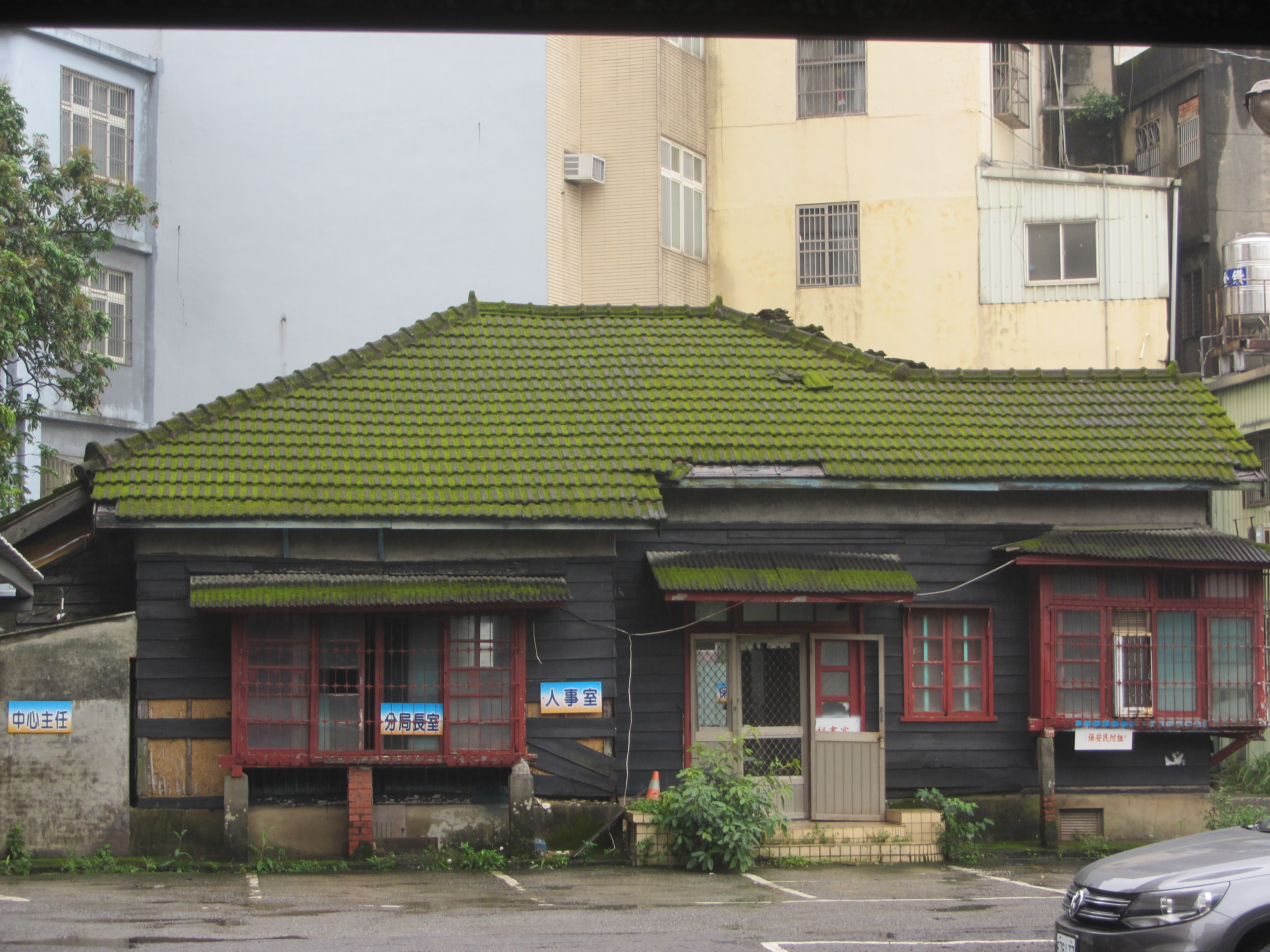 No.287, Zhonghe Rd., Zhongli City, Taoyuan County